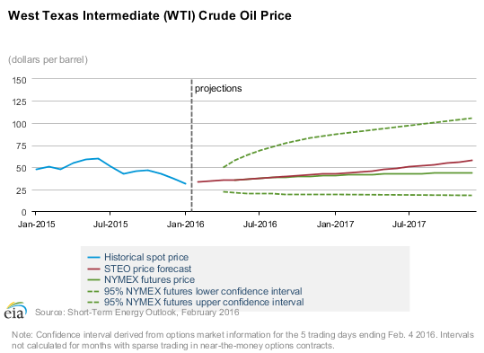 Depicts EIA projections for West Texas Intermediate crude oil price for 2016-2017.